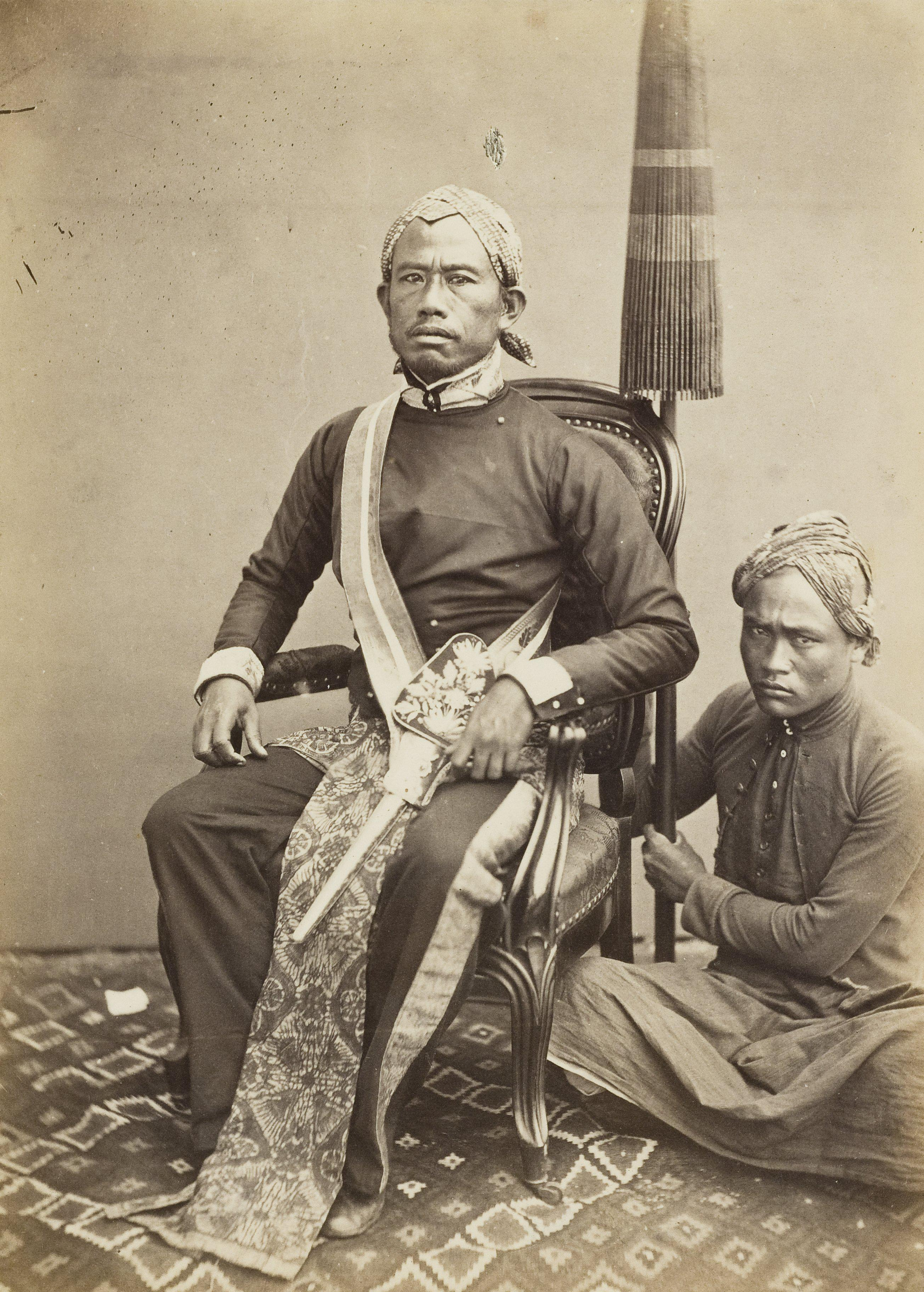 Regent of Bandung with his pajung bearer